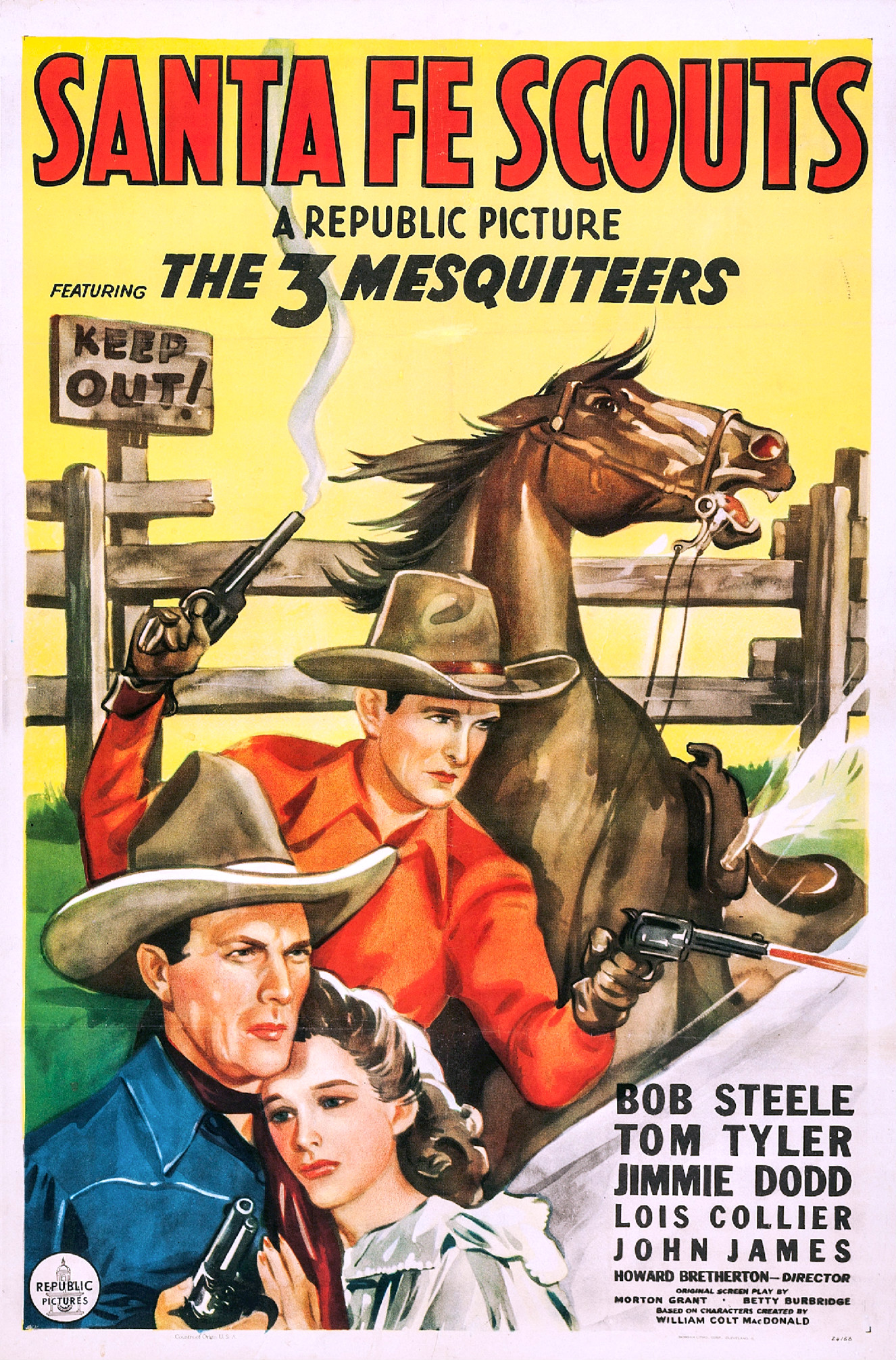 Poster for the 1943 film Santa Fe Scouts. The item has no copyright markings on it as can be seen in the links above. At lower left is Country of origin USA-at lower right is Morgan Litho Corp. Cleveland, O-they printed the poster-and 24166.